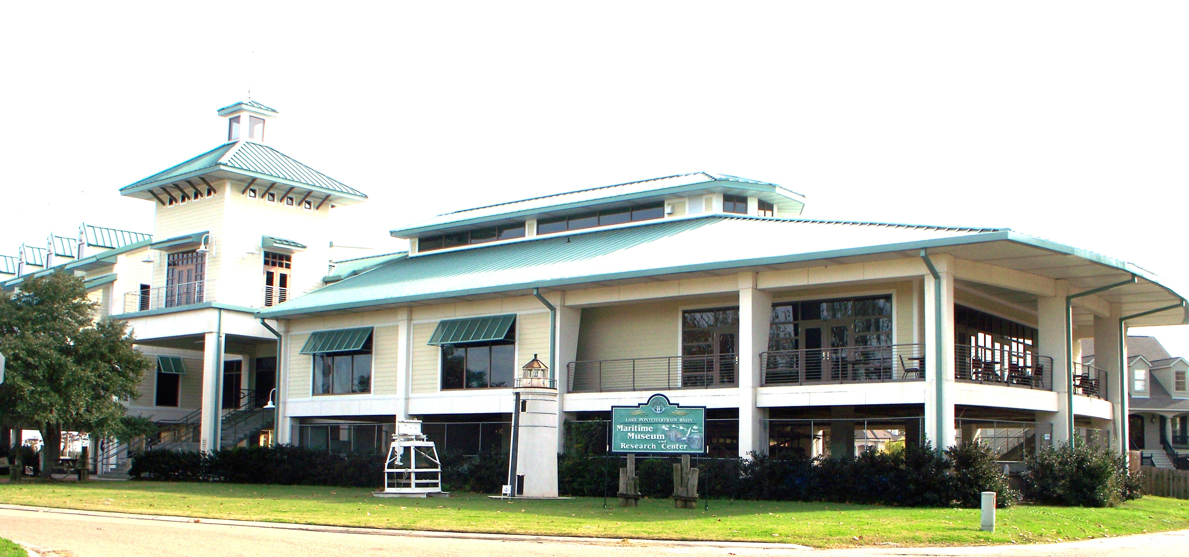 Lake Ponchartrain Basin Maritime Museum, Madisonville Louisiana